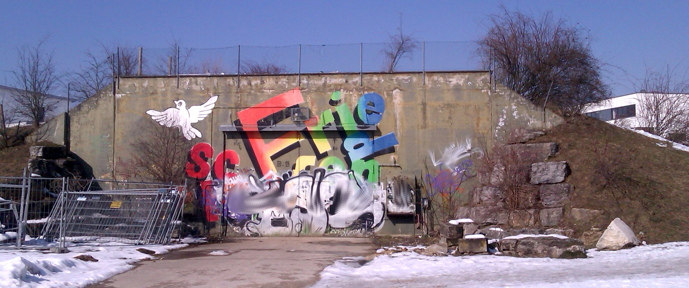 Former shelter of US 56th Field Artillery Command Mutlangen base